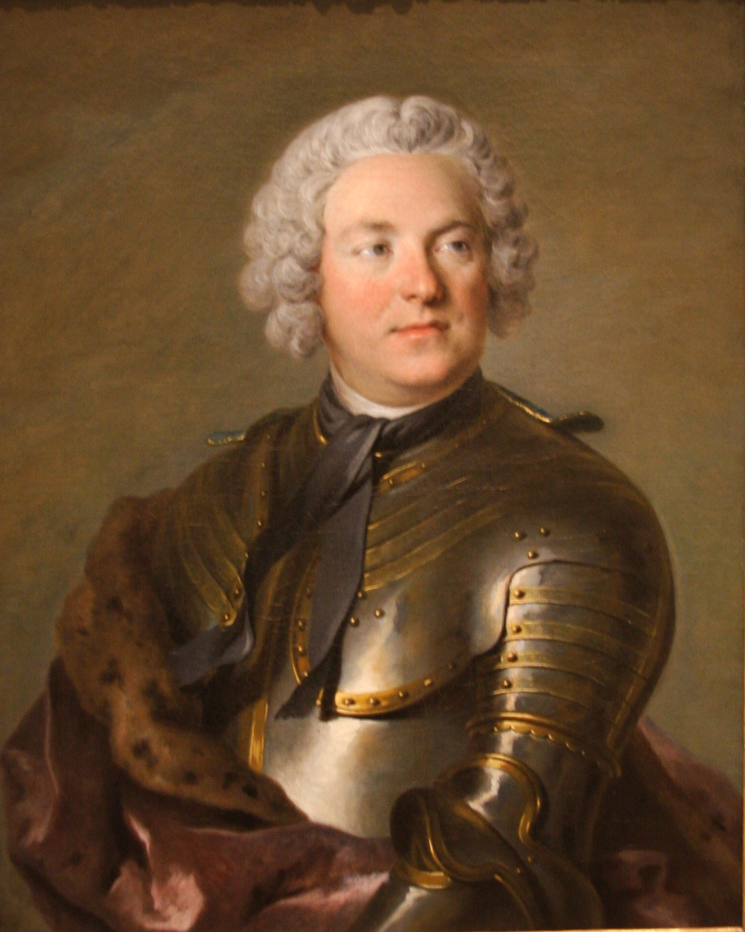 Portrait of the Count Carl Gustaf Tessin